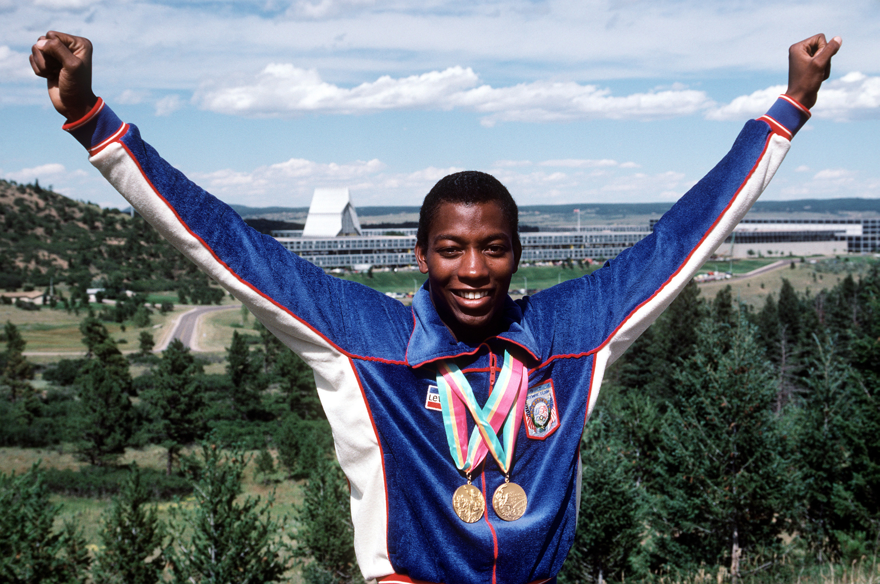 Second Lieutenant Alonzo Babers wears the gold medals he won during the 23rd Olympiad in 1984. Babers won one gold medal in the mens 400-meter race and the second medal for his part in the 1600-meter relay event. Airman-Magazine-Jan 1985.